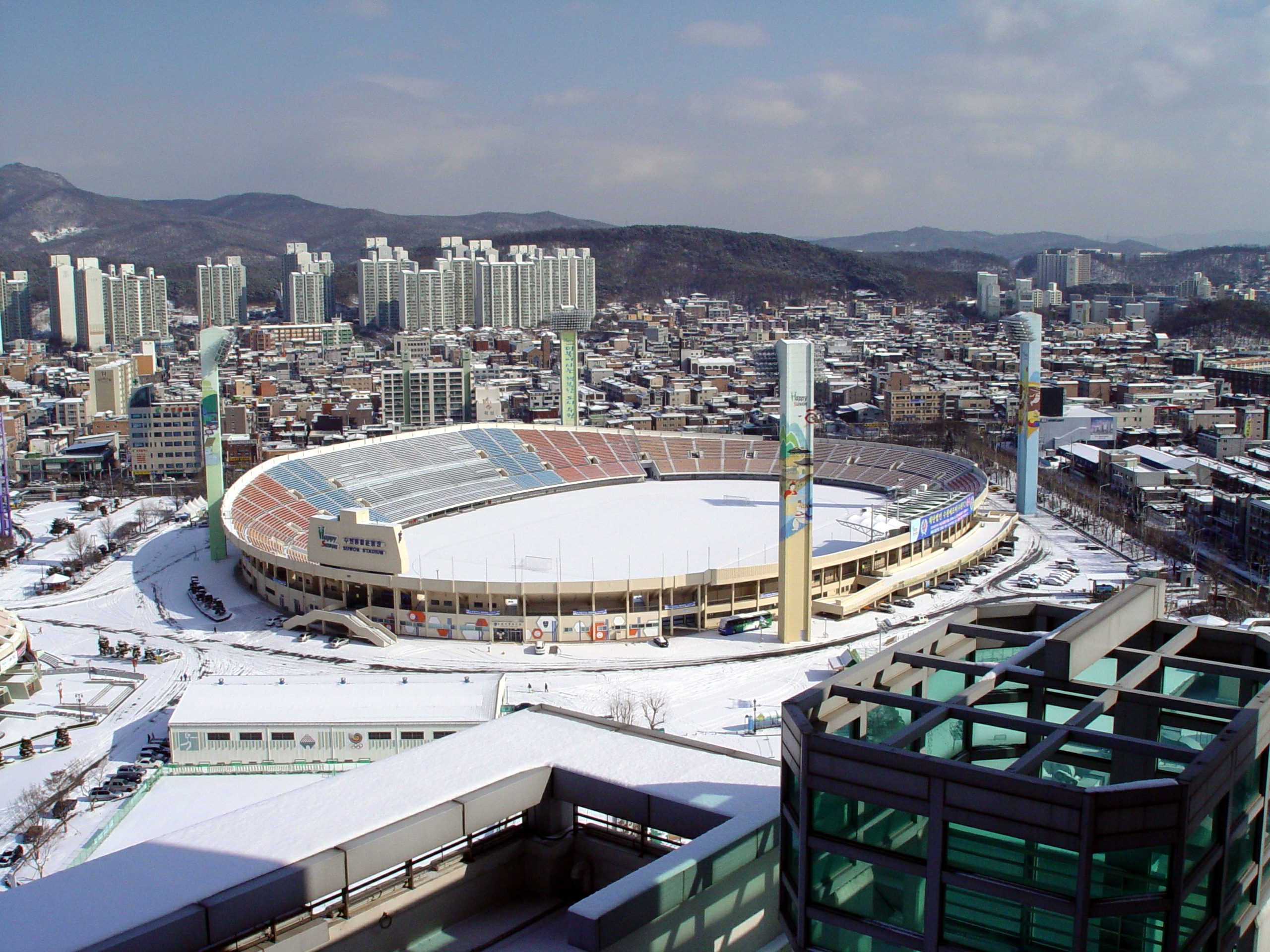 Suwon Civil Stadium viewed from Royal Palace apartment, Suwon, South Korea